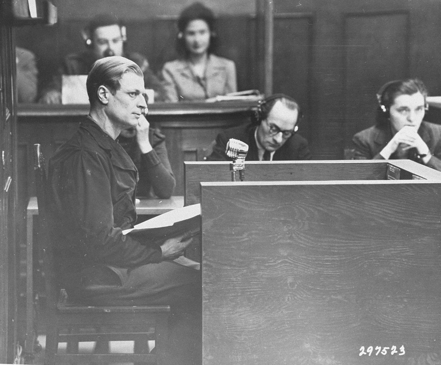 Dr. Hans Hilmar Staudte, a former "race examiner" in the Rasse- und Siedlungshauptamt, the Race and Settlement Office, testifies as a defense witness at the RuSHA Trial.